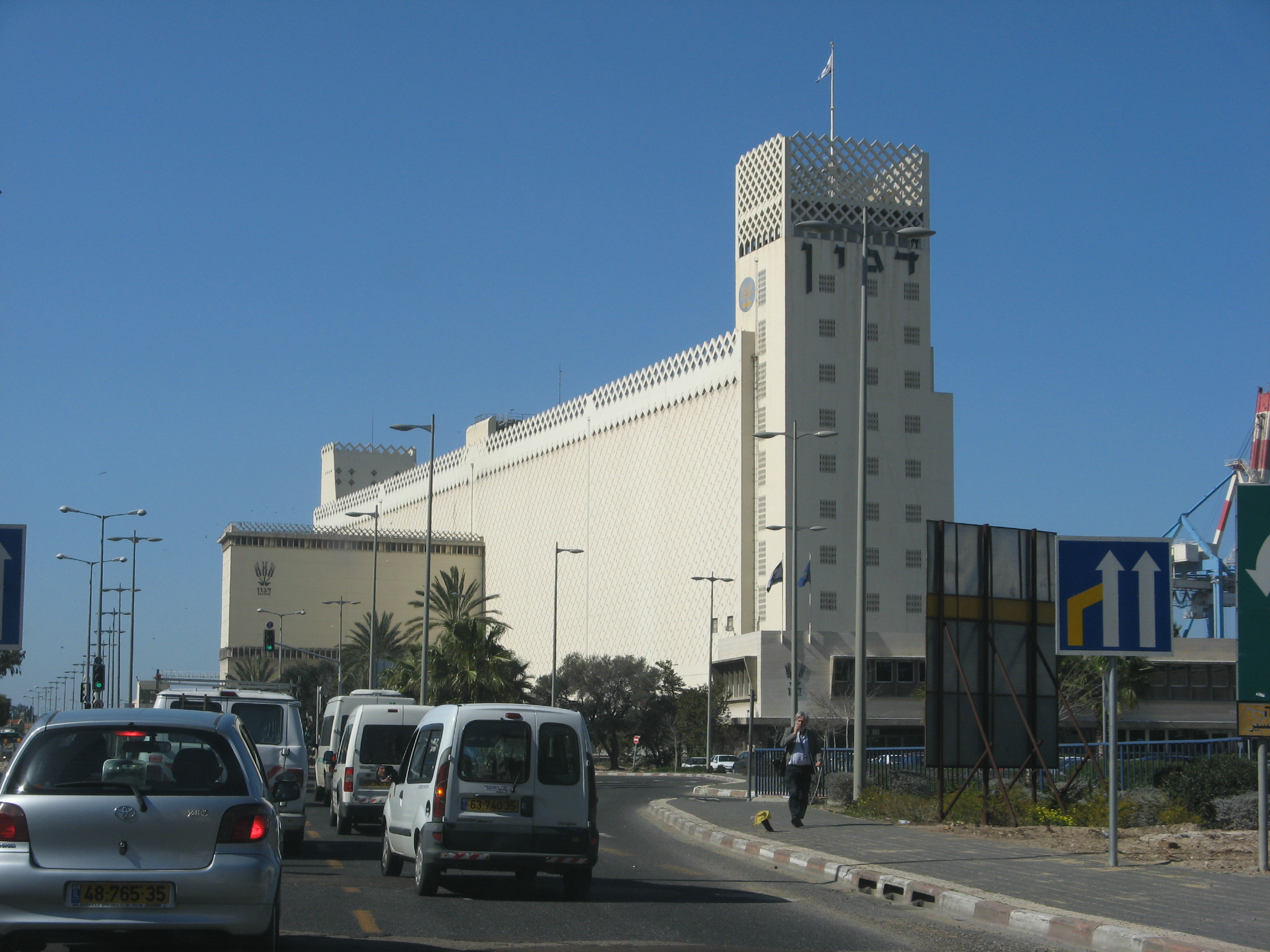 Dagon Grain storage building in Haifa, Israel